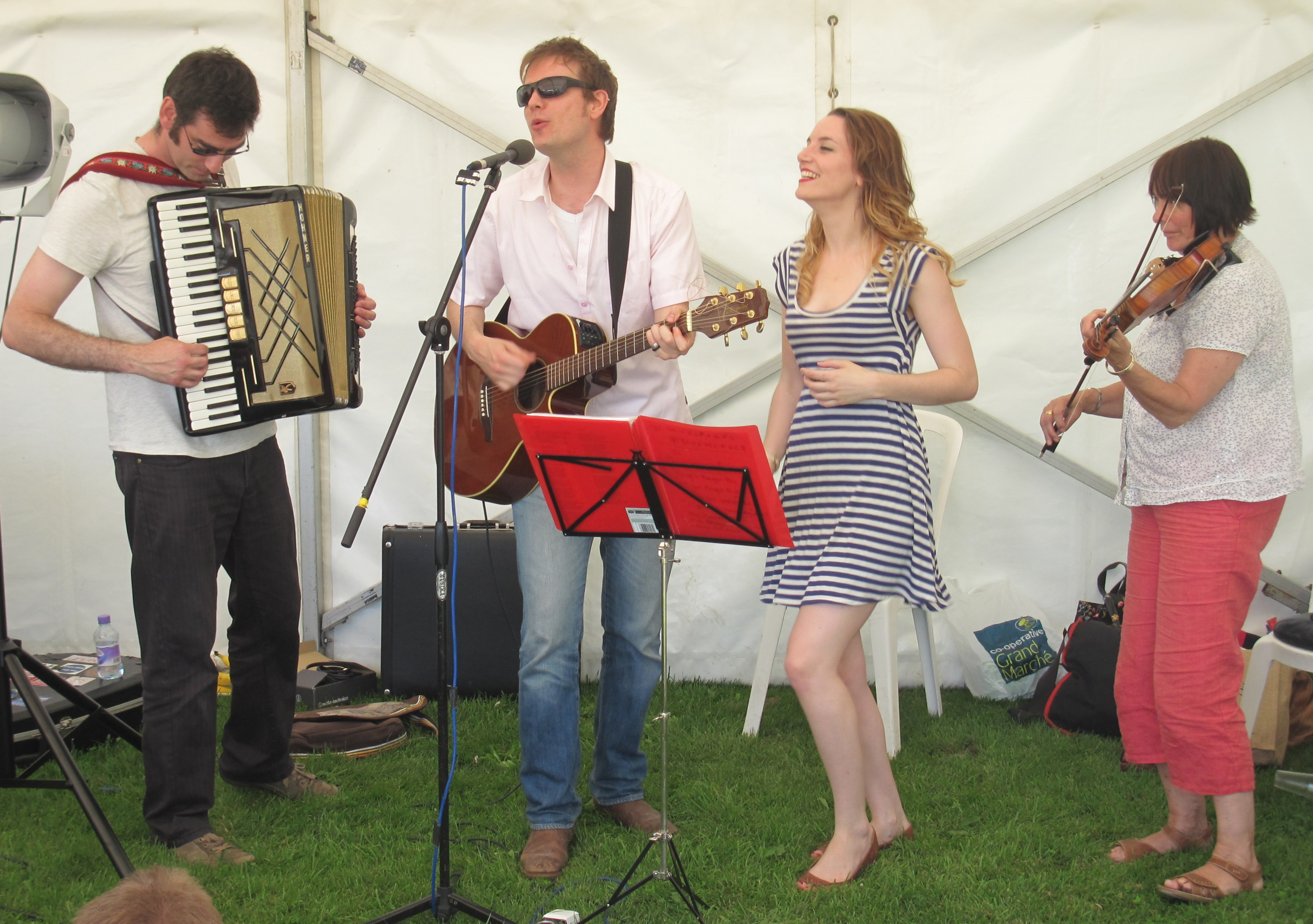 Saint Helier pilgrimage, Saint Helier, Jersey, 22 July 2012